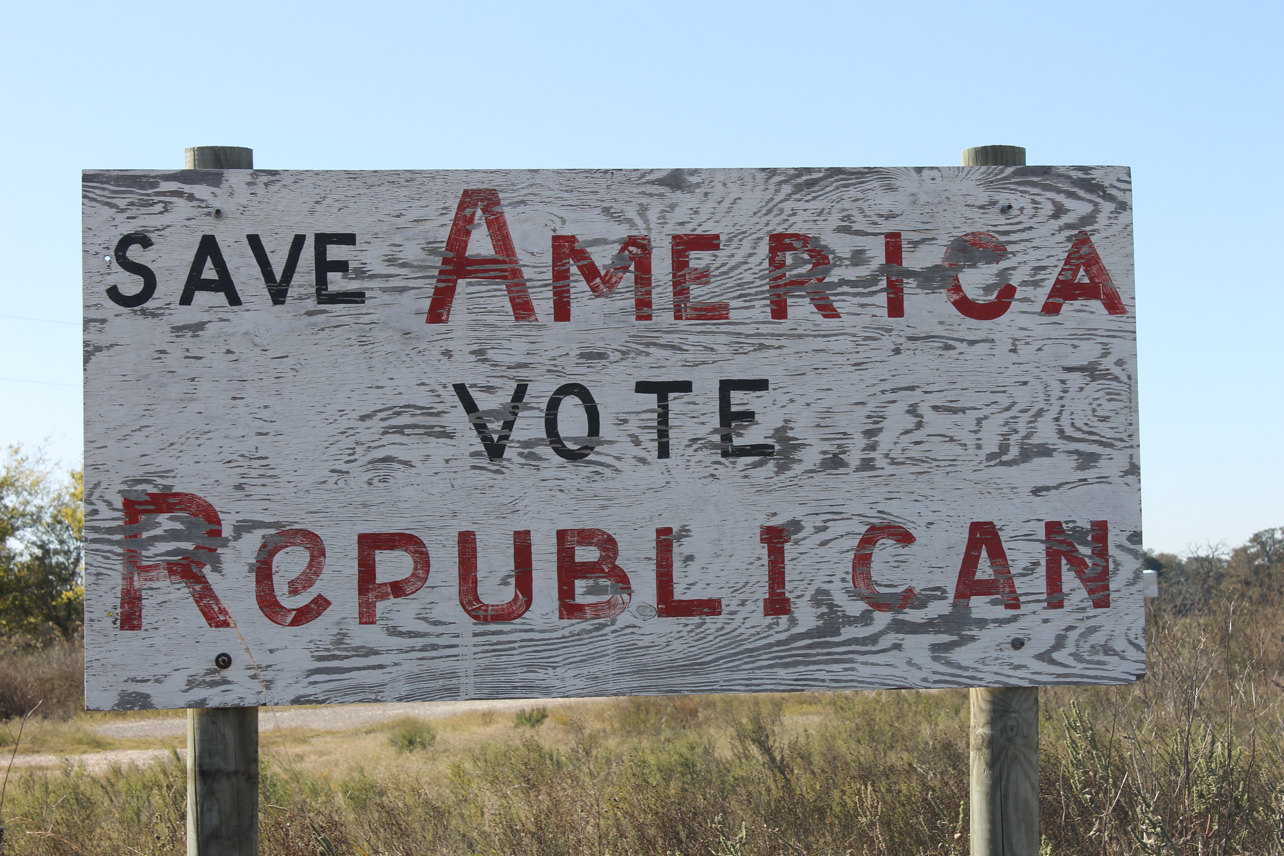 Faded "Vote Republican" sign in Leon County, TX